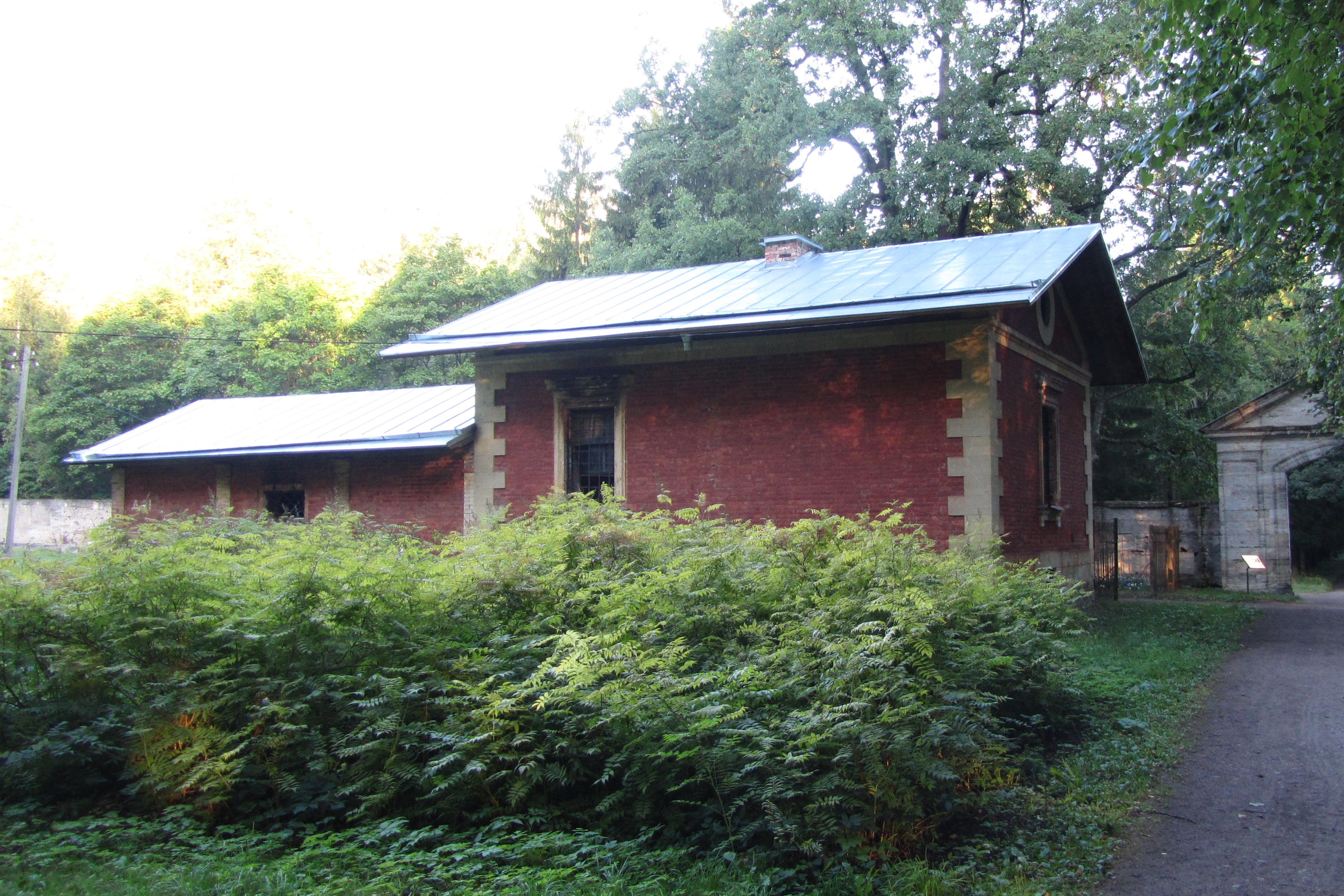 Guardhouse No 5 by Sylvia gate, Gatchina, Russia